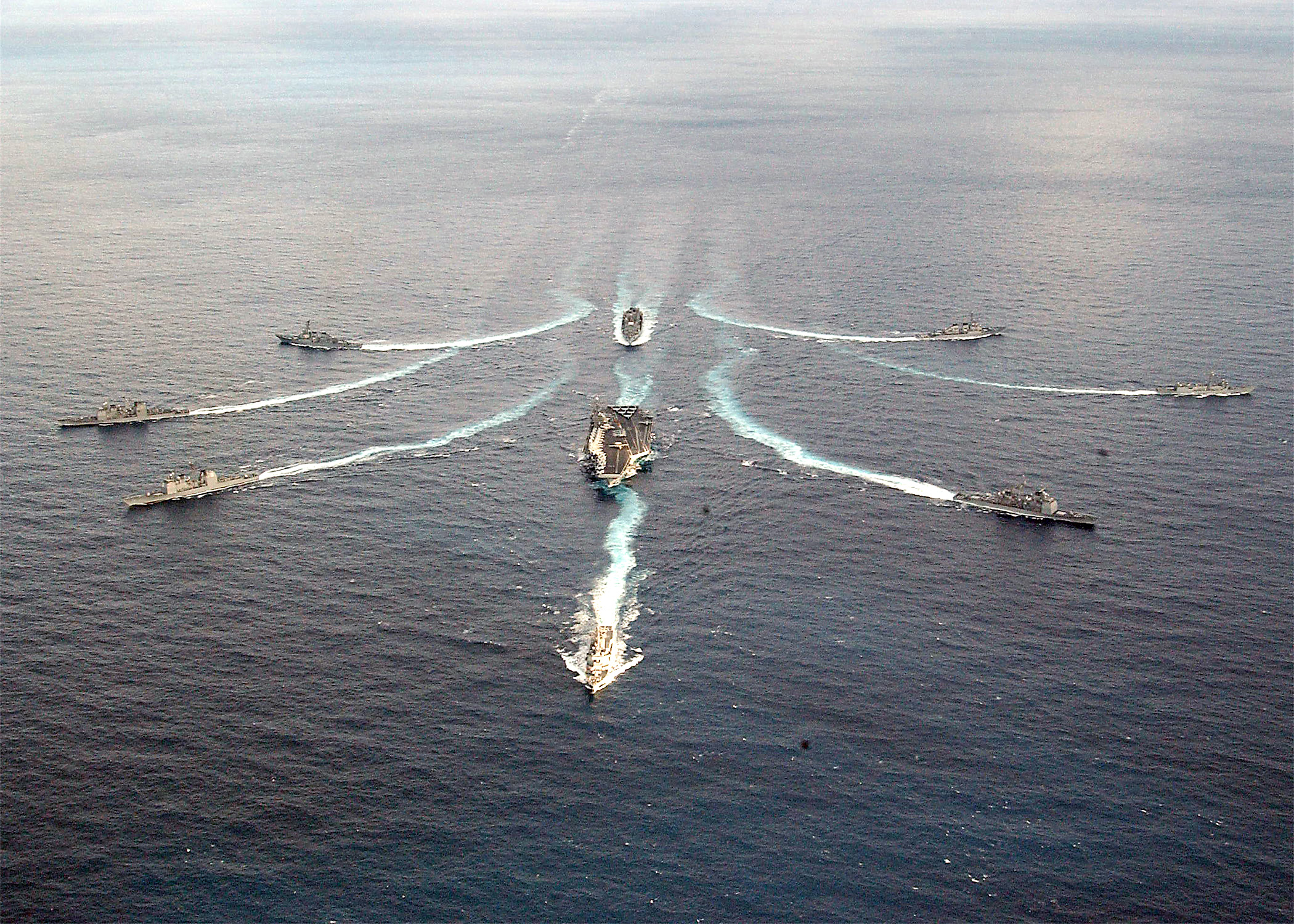 031130-Atlantic Ocean (Nov. 30, 2003) -- USS George Washington (CVN 73) Carrier Strike Group breaks formation in the Atlantic. Washington is conducting Composite Training Unit Exercise (COMPTUEX) in the Atlantic Ocean in preparation for their upcoming deployment. U.S. Navy photo by Photographer’s Mate 2nd Class Summer M. Anderson. (RELEASED)